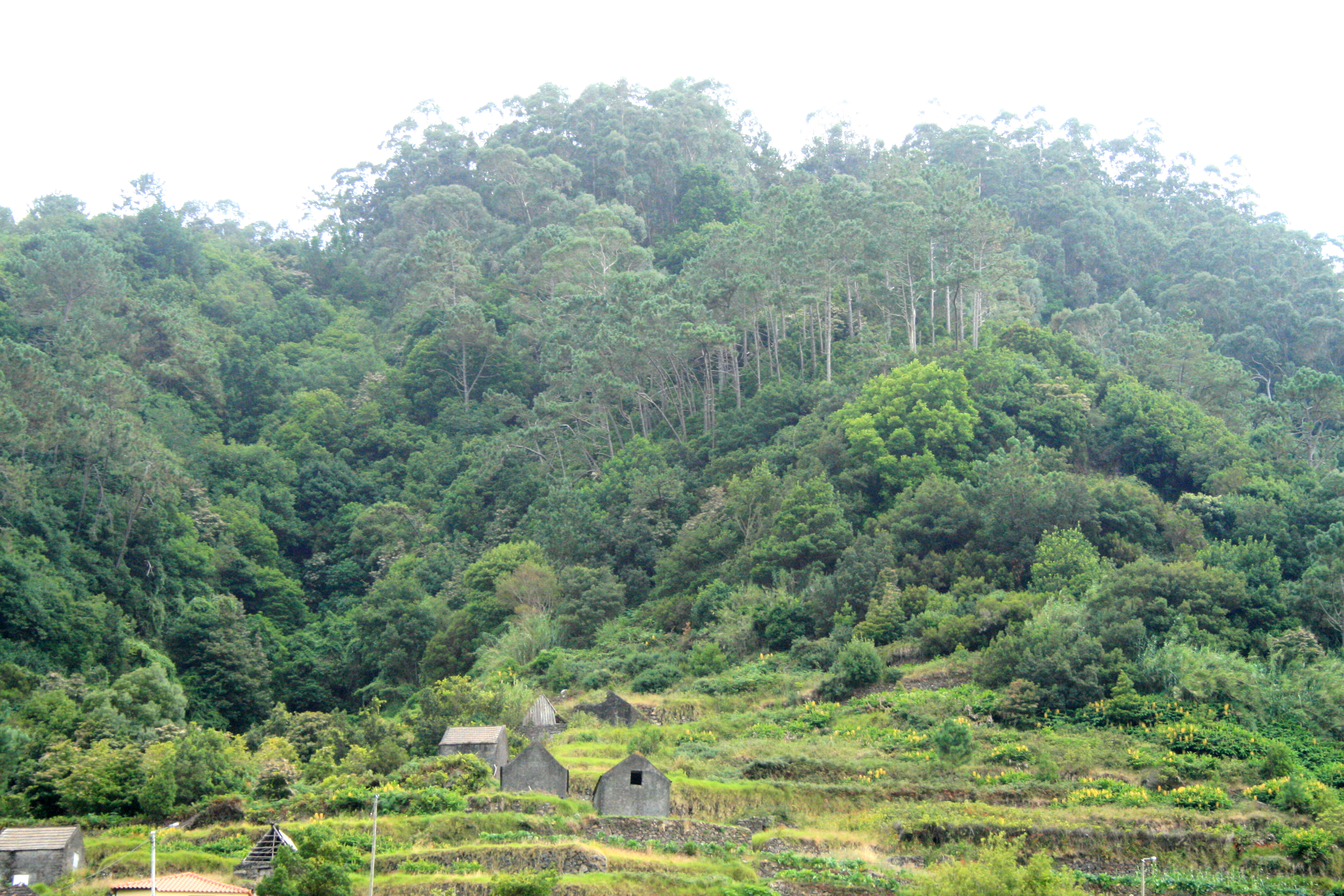 Ribeira da Janela. Madeira